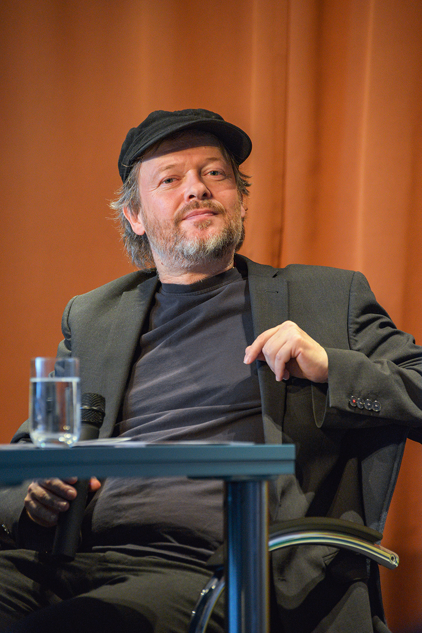 Autorin Rana Ahmad hält Lesung ihres Buches "Frauen dürfen hier nicht träumen" in Oberwesel, Dr. Michael Schmidt-Salomon moderiert Lesung 14. Januar 2018